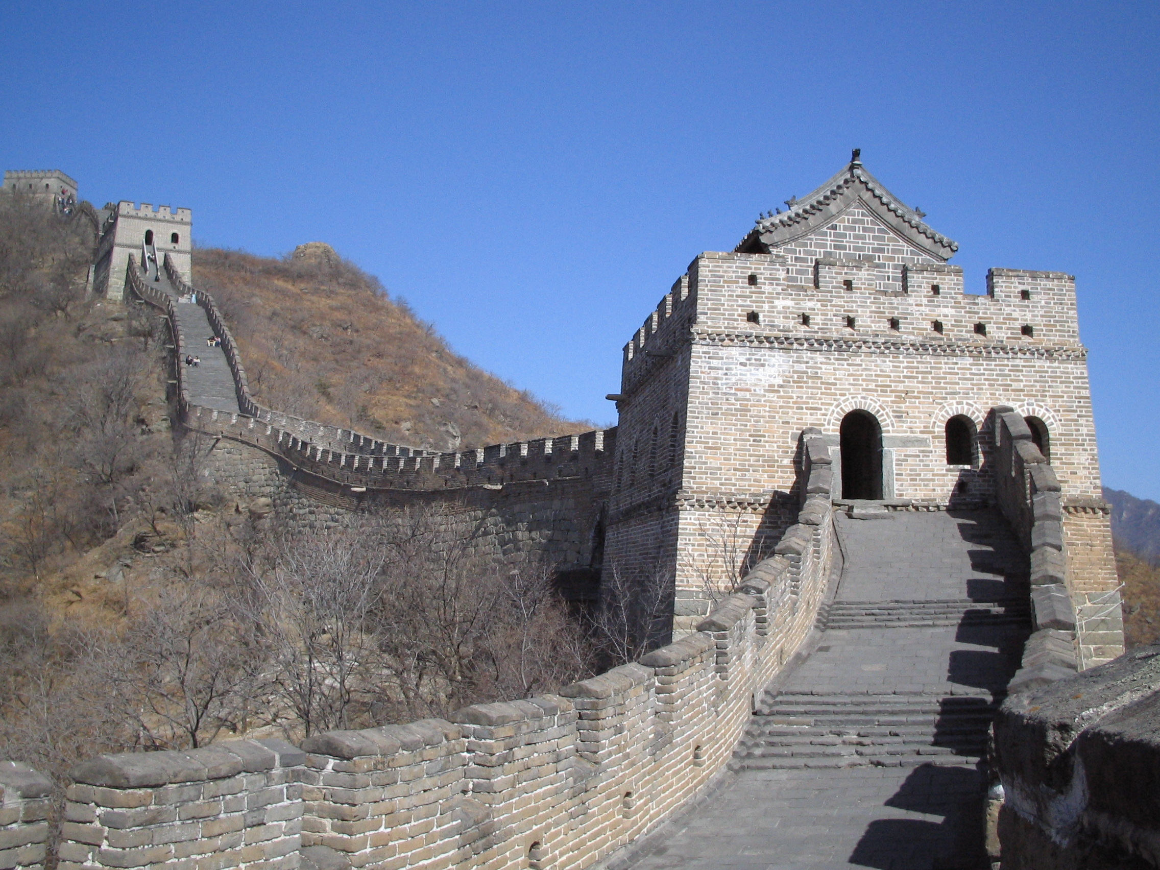 Great wall of China at Mutianyu near Beijing.